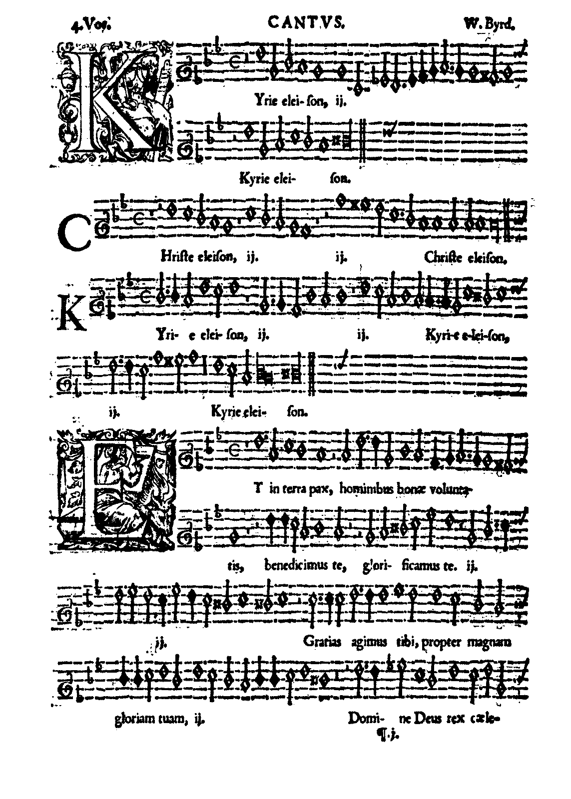 Front cover of the "Kyrie Eleison" from the Mass for Four Voices by William Byrd (c.1540–1623), probably published in London by Thomas East